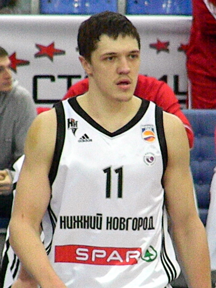 Semyon Antonov, russian basketball player from BC Nizhny Novgorod in the game against Spartak Saint-Petersburg on March 19th, 2011